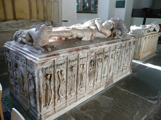 Tomb of Sir William ap Thomas (died 1446) Sir William ap Thomas took the surname Herbert. The alabaster tomb has fine detailed carvings of apostles and martyrs and the Annunciation depicted on its east panel. He lies alongside his wife Gwladys, known as the 'Star of Abergavenny' for her beauty.